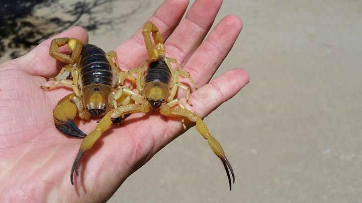 Opistophthalmus longicauda - female on left - Aughrabies Falls, Northern Cape, South Africa